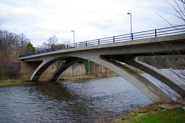 New Garrion Bridge 2001 - A71 The new Garrion Bridge build in 2001 to reduce the traffic build up created by having only one bridge operated by traffic lights. This bridge opened to the general public on 31st January 2002. The whole project cost £6.6 million from South Lanarkshire's budget, and operates in conjunction with the Old Garrion Bridge using a 'roundabout' system with both bridges.